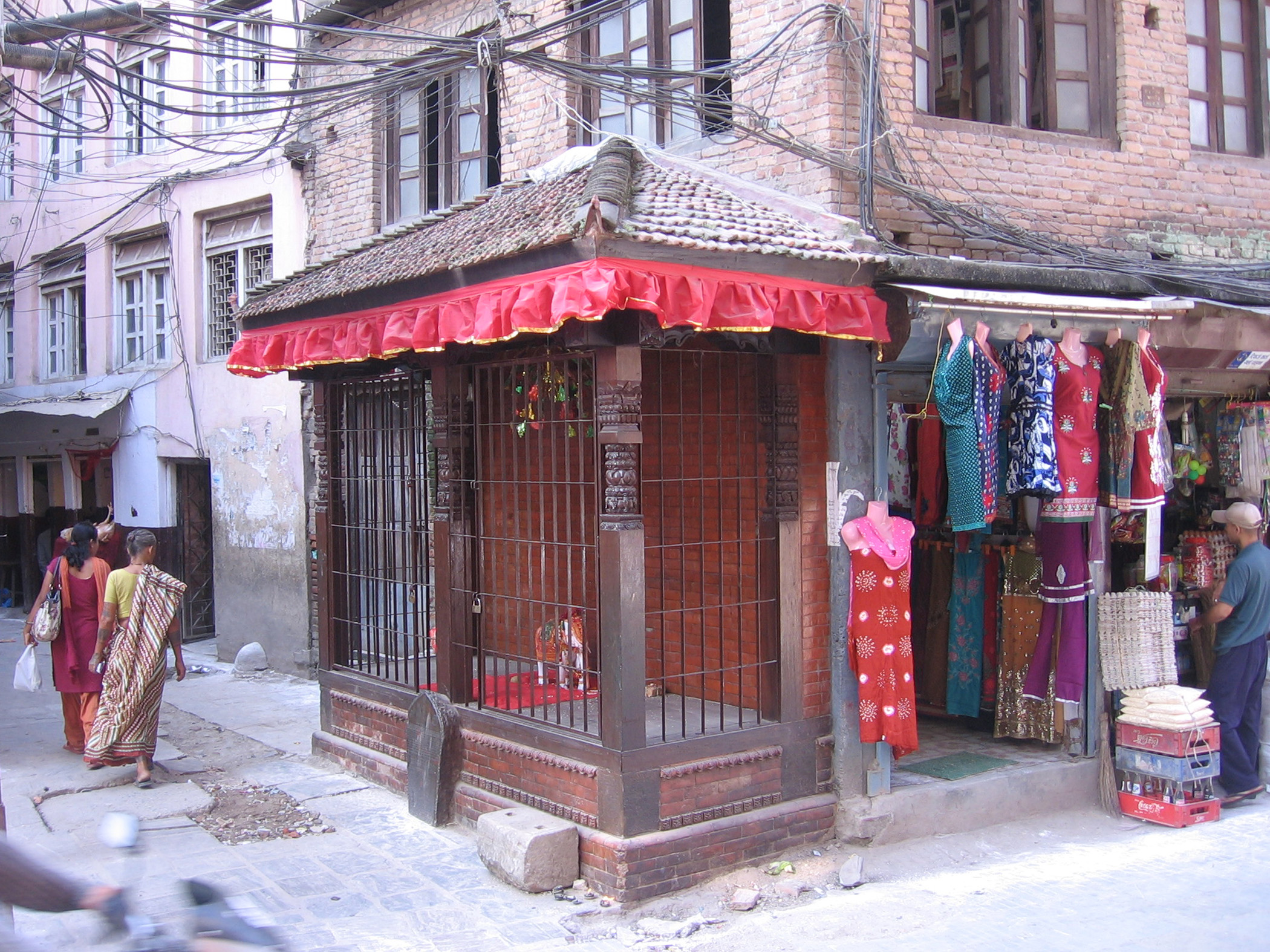 Lakhu Phalcha, the roadside shelter in Maru, Kathmandu which is linked with the founding of Nepal Sambat. This is where the sand carriers took a rest.